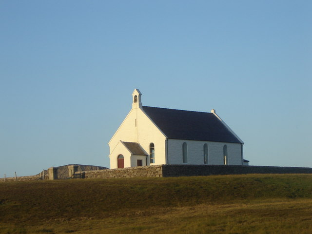 Fair Isle Kirk, late in the evening This shot of the Kirk was taken at 21:06 early in July. The sky says it all.